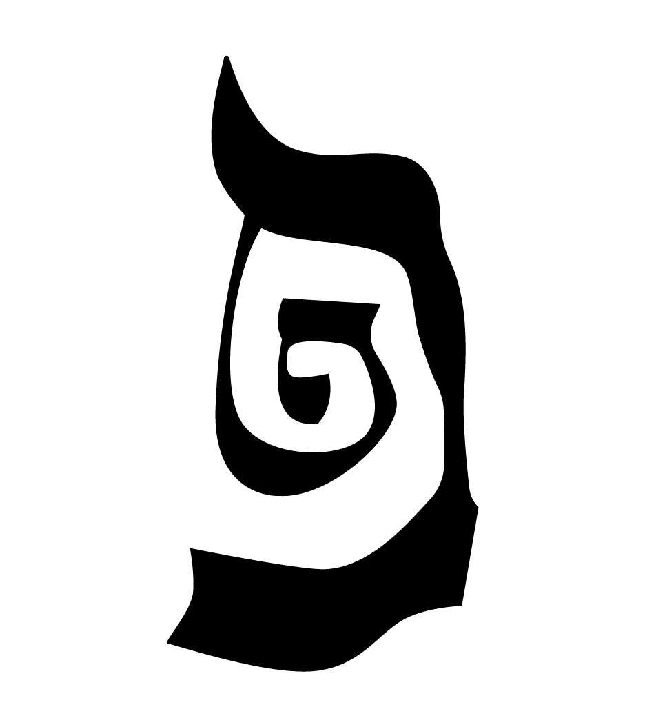 Double Letter Pe as seen in a Torah Scroll where this letter occurs. According to the book "Sefer Tagin", this atypical letter should occur 191 times in the Torah.